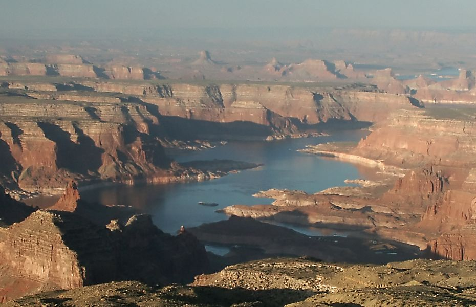 Lake Powell at sunrise, looking southwest from Navajo Point on the Kaiparowits Plateau. The Dangling Rope Marina is visible in the shadows at the bottom of the picture.